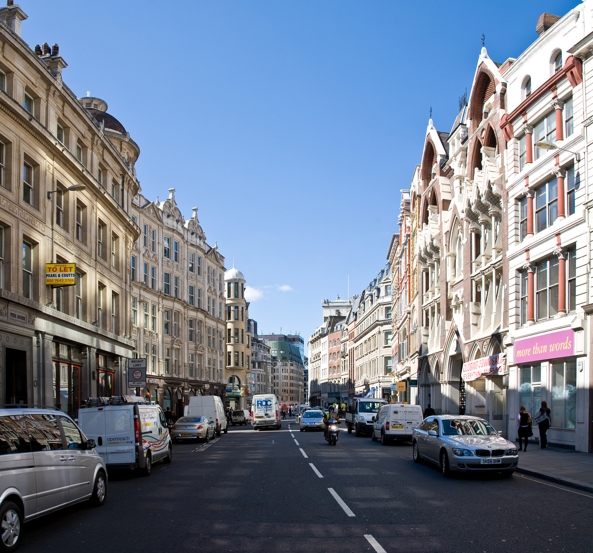 Looking down Eastcheap towards Monument Tube Station in the City of London, England. Taken by myself with a Canon 5D and 24-105mm f/4L IS lens.